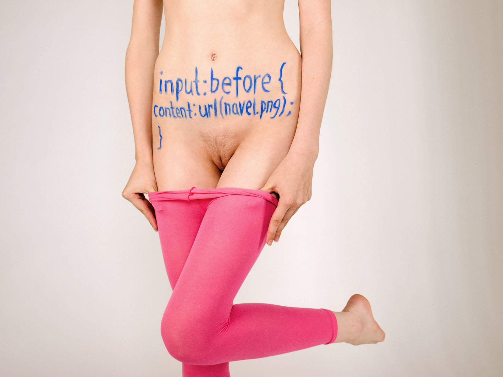 CSS 2 Selector Inserts content before the selected element Model - charming Svetlana Novikova